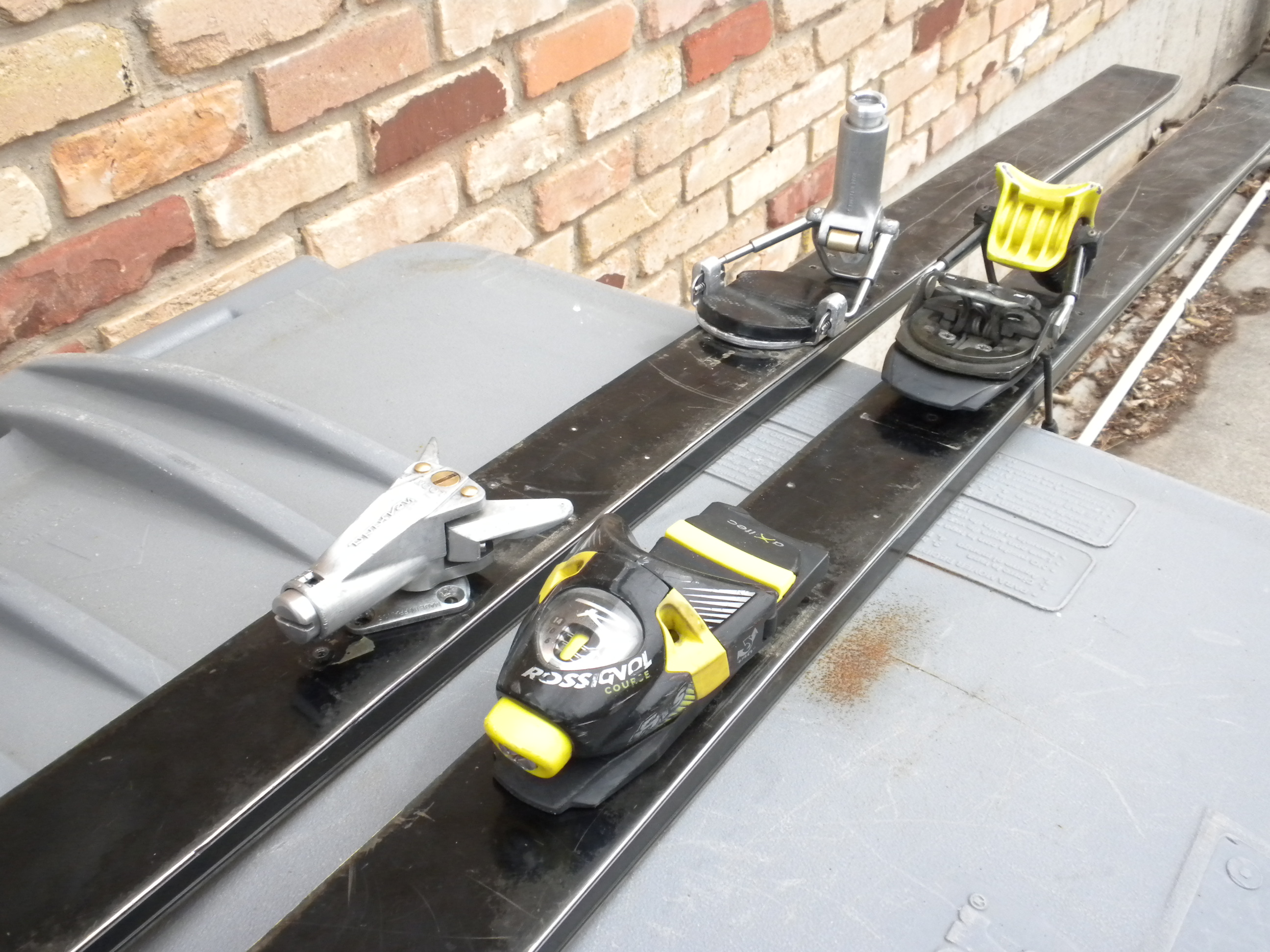 Mounted to a pair Head Standard skis, these bindings illustrate the evolution of the Look bindings over 30 years. On the left is a Nevada II toe and N17 heel on its turntable mounting. On the right are a Rossignol-branded version of the Look Pivot design from the 1990s. The lineage is obvious. The real changes between these two designs are limited. Plastics have replaced metals wherever possible, lowering weight and cost, but making the binding larger overall. The new design includes a ski brake, which has been universal since the 1970s. The bronze roller in the Grand Prix, designed to fit in the place of a cable binding, is no longer needed. More subtle changes are implemented in the toe binding. The toe can now release upwards, first introduced on the XM models. Note the small graphic on the side of the toe clip illustrating the release directions. The two-finger design of the Nevada II, which lasted well into the 1990s, has been replaced by a single cup more reminiscent of the original Nevada. However, this cup is designed to roll sideways, instead of pivot, completely eliminating the possibility of the pivots jamming if the force is directed right at them.